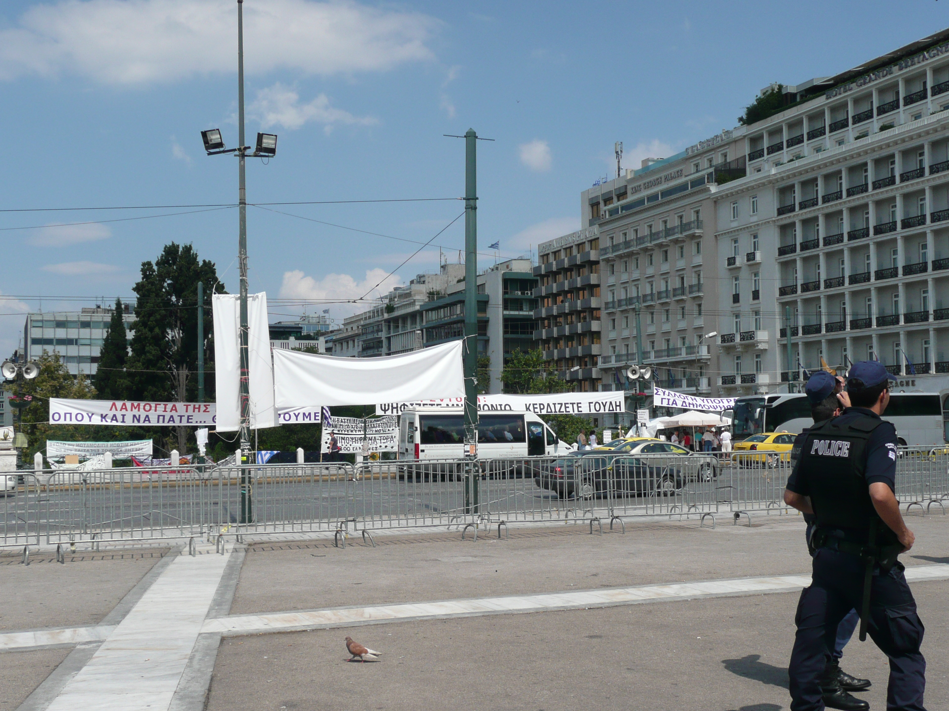 Demo in Athens, June 2011.